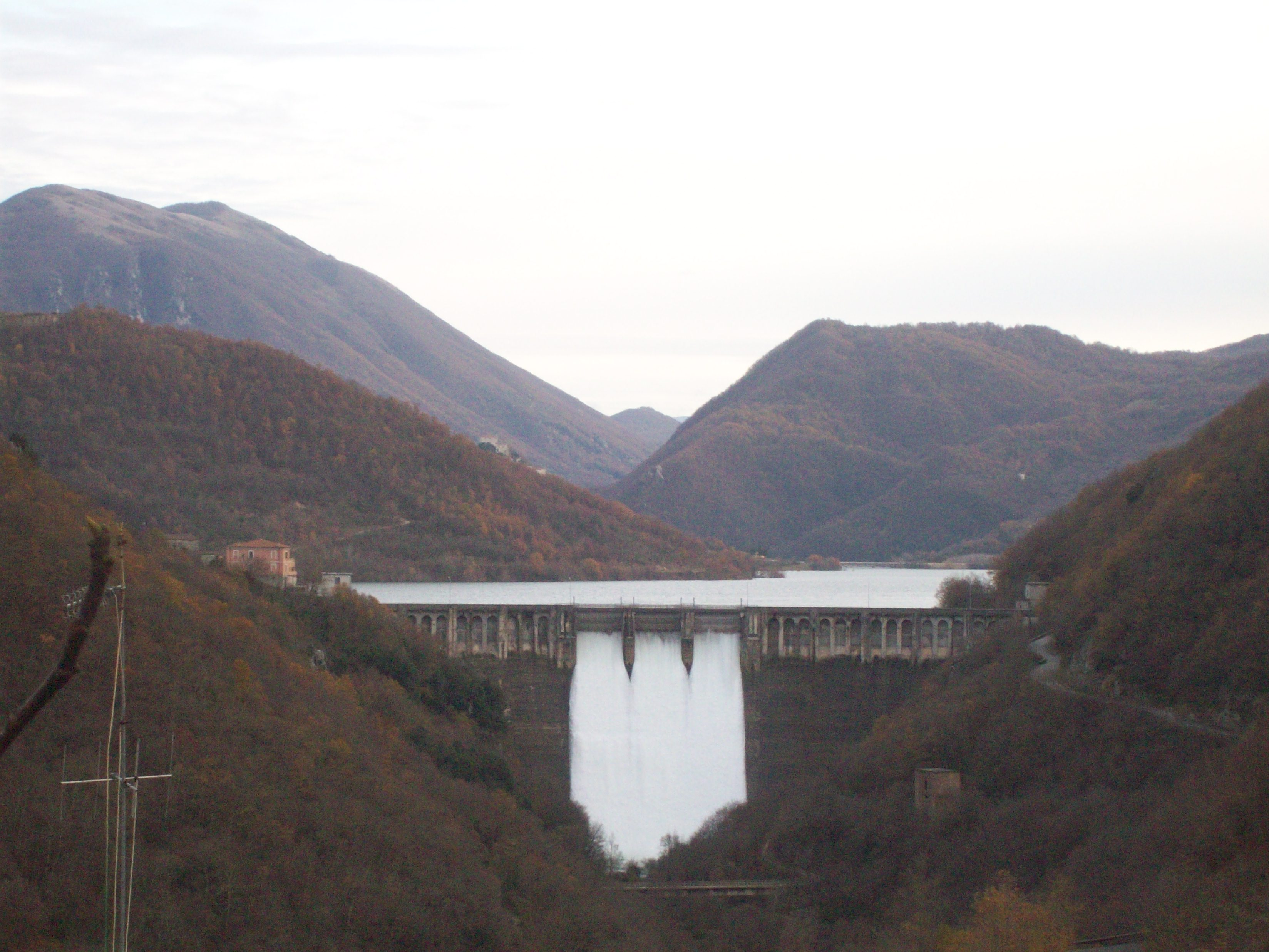 Dam Lake Turano